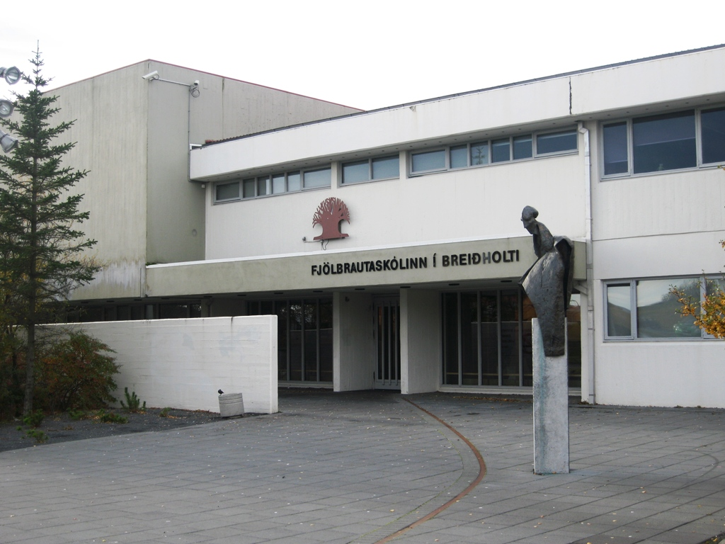 Main entrance to the Old Village School in Breiðholti